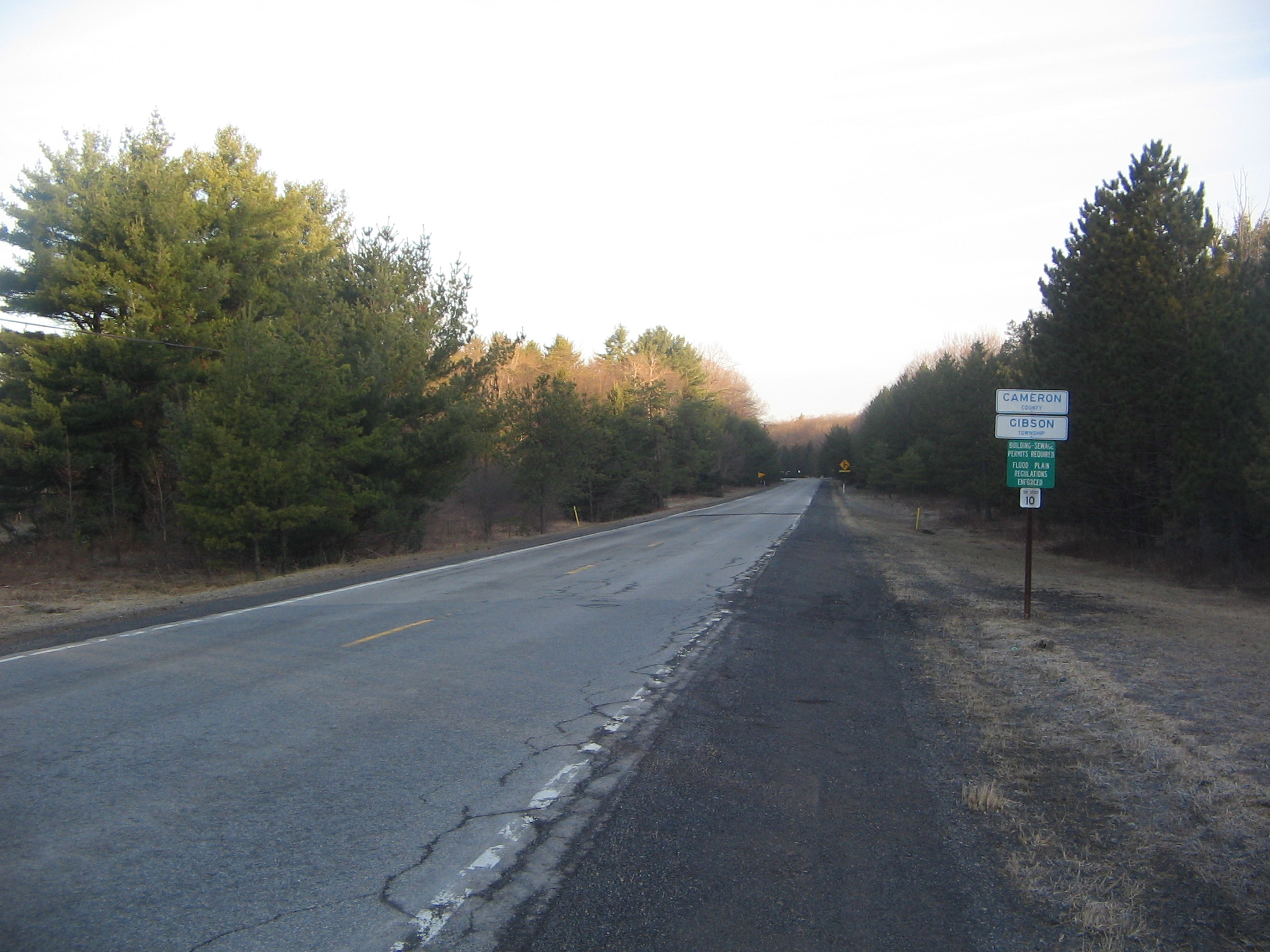 Looking west on Quehanna Highway in Quehanna Wild Area, Clearfield County, Pennsylvania, USA. Just before the Cameron County line, this is where the 1985 tornade crossed the highway.